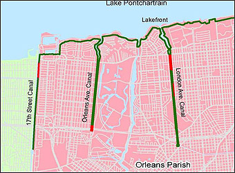 Image courtesy of USACE.